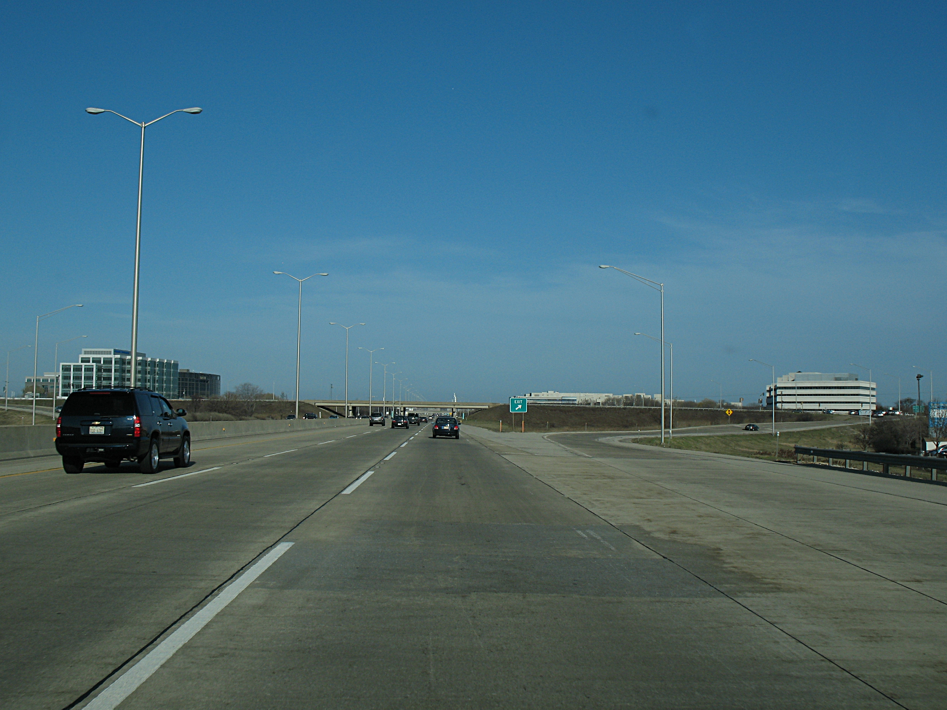 Eastbound Interstate 88 in Naperville, Illinois